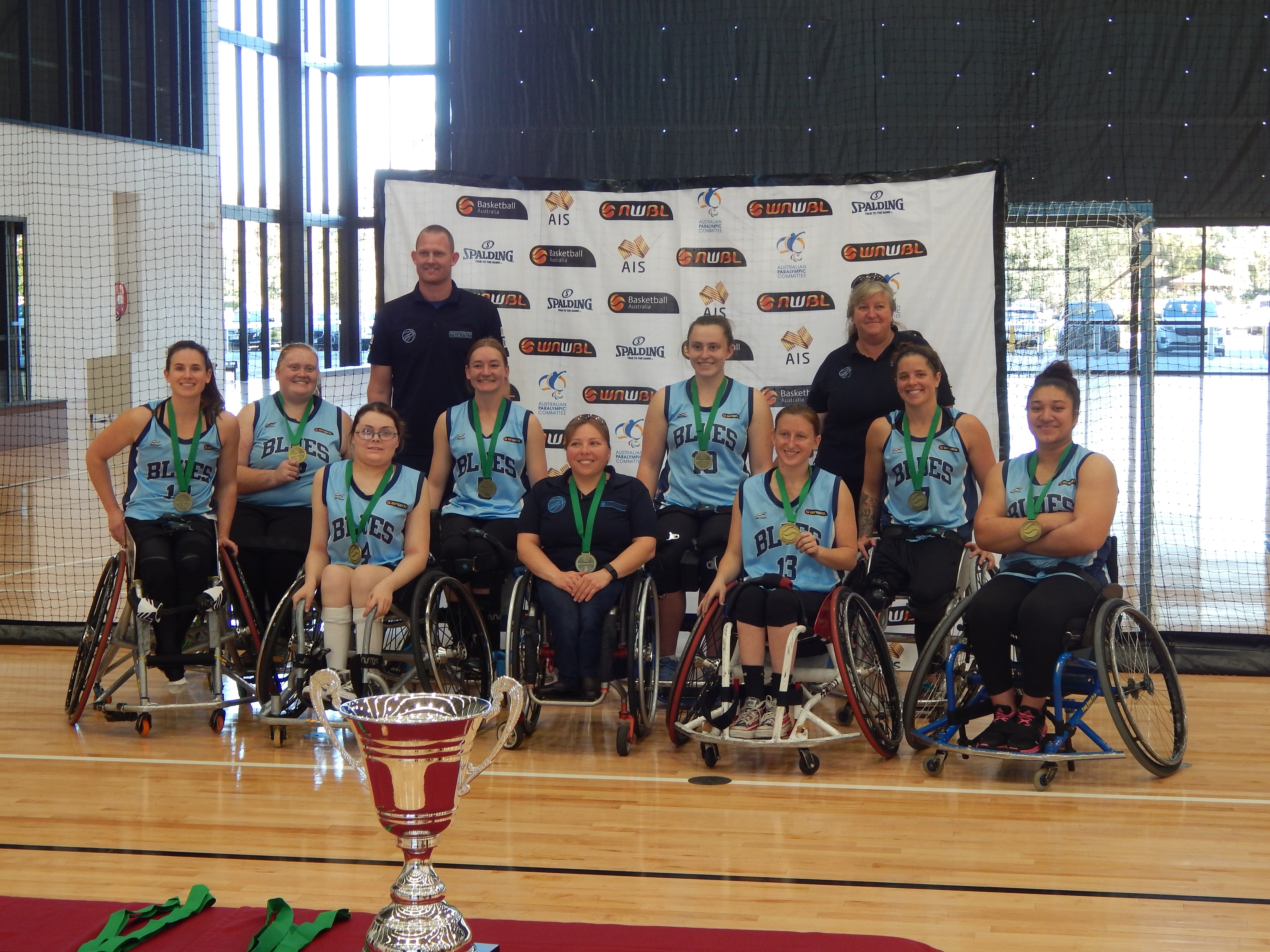 Sydney Metro Blues are the 2017 WNWBL gold medallists. Left to right: Bridie Kean, Jessica Pellow, Ashlea Pellow, Troy Sachs (coach), Jess Cronje, Kylie Gauci, Georgia Munro-Cook, Courtney Ryan, Kris Riley (team manager), Cobi Crispin, Maryanne Latu